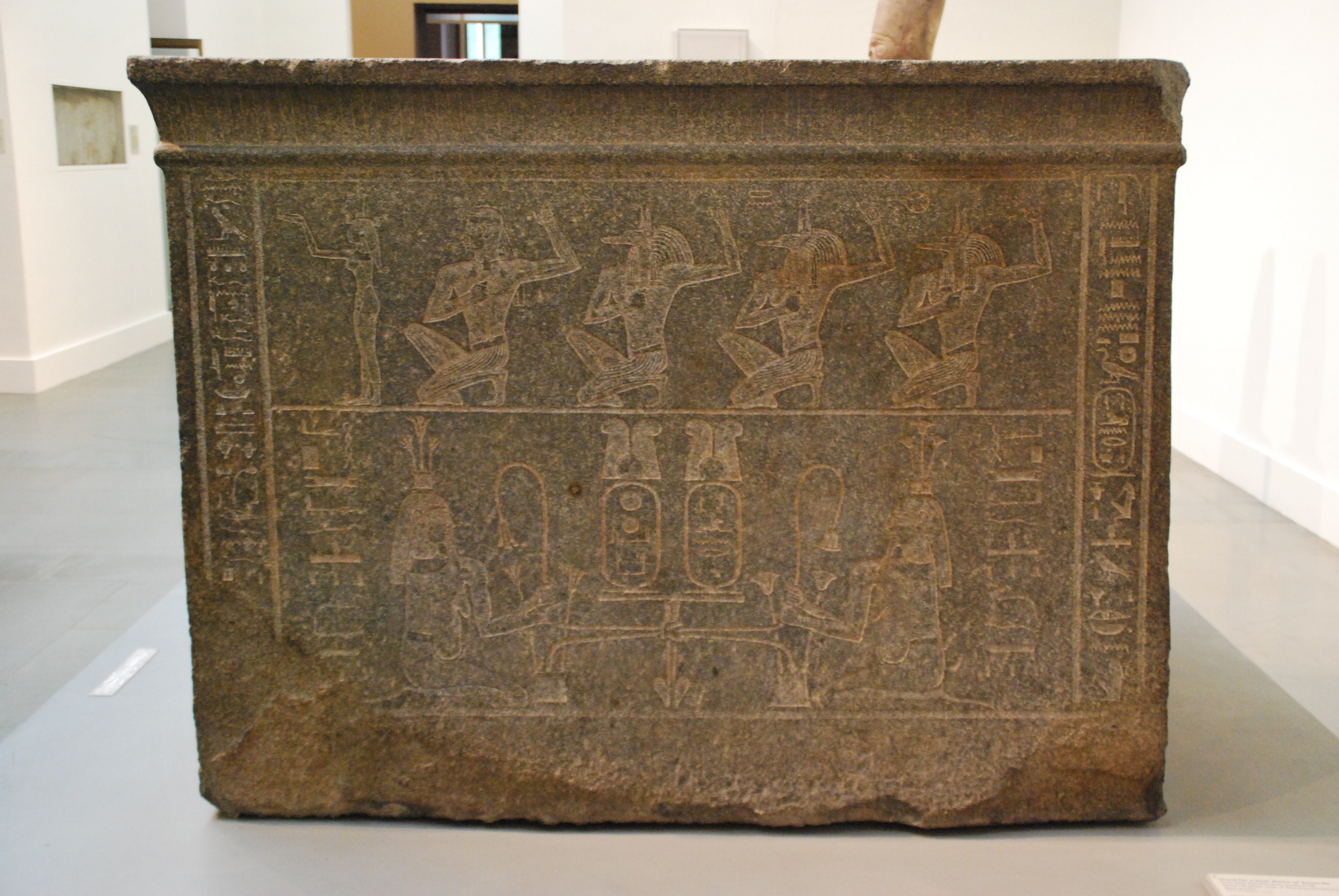 Stand for a boat shrine of Amun-Re from Jebel Barkal (Sudan); temple B 700; Nubian (Kushite), reign of Atlanersa, 653-643 B.C.; Black granite.